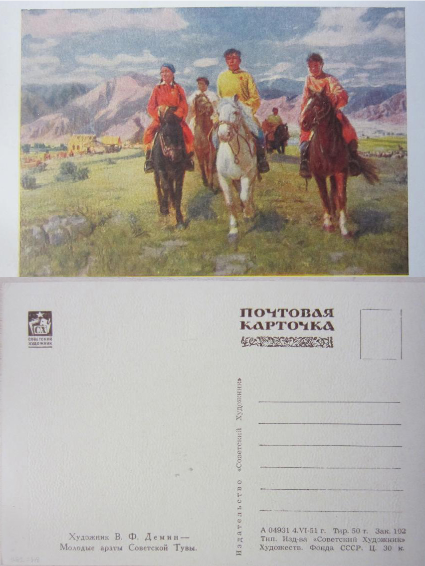 Postcard with a picture of V. F. Demin "Young ARATS of Soviet Tuva" 1951.